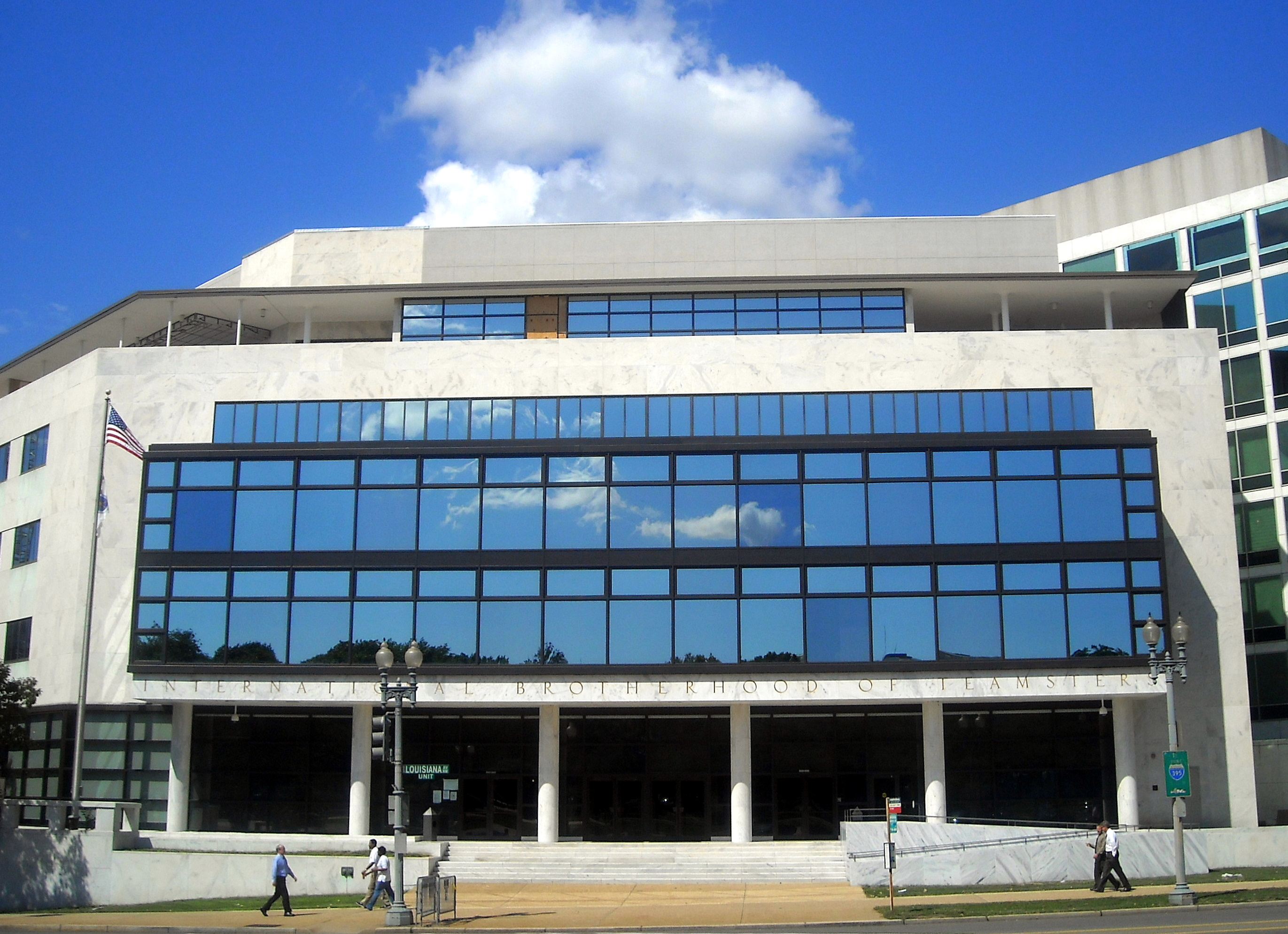 The International Brotherhood of Teamsters headquarters located at 25 Louisiana Avenue, N.W., beside Capitol Hill in Washington, D.C.